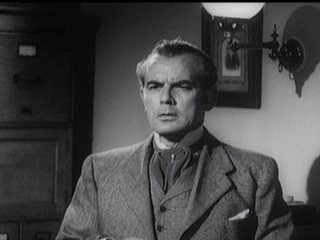 Welsh actor Clifford Evans